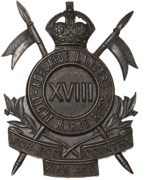 Hat Badge